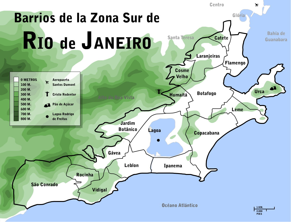 Districts in the South Zone of Rio de Janeiro, RJ, Brazil